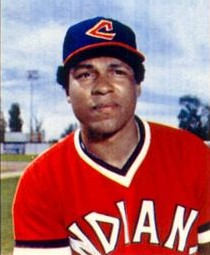 Image cropped from a baseball card of Cleveland Indians player Andre Thornton from the 1979 Hostess set.